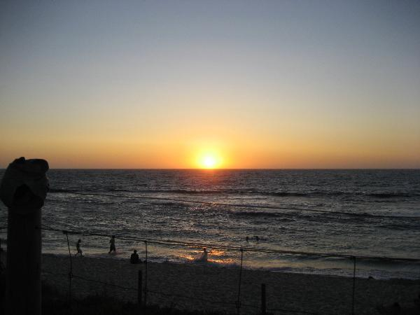 Sunset over Mettams Pool, Trigg, WA.